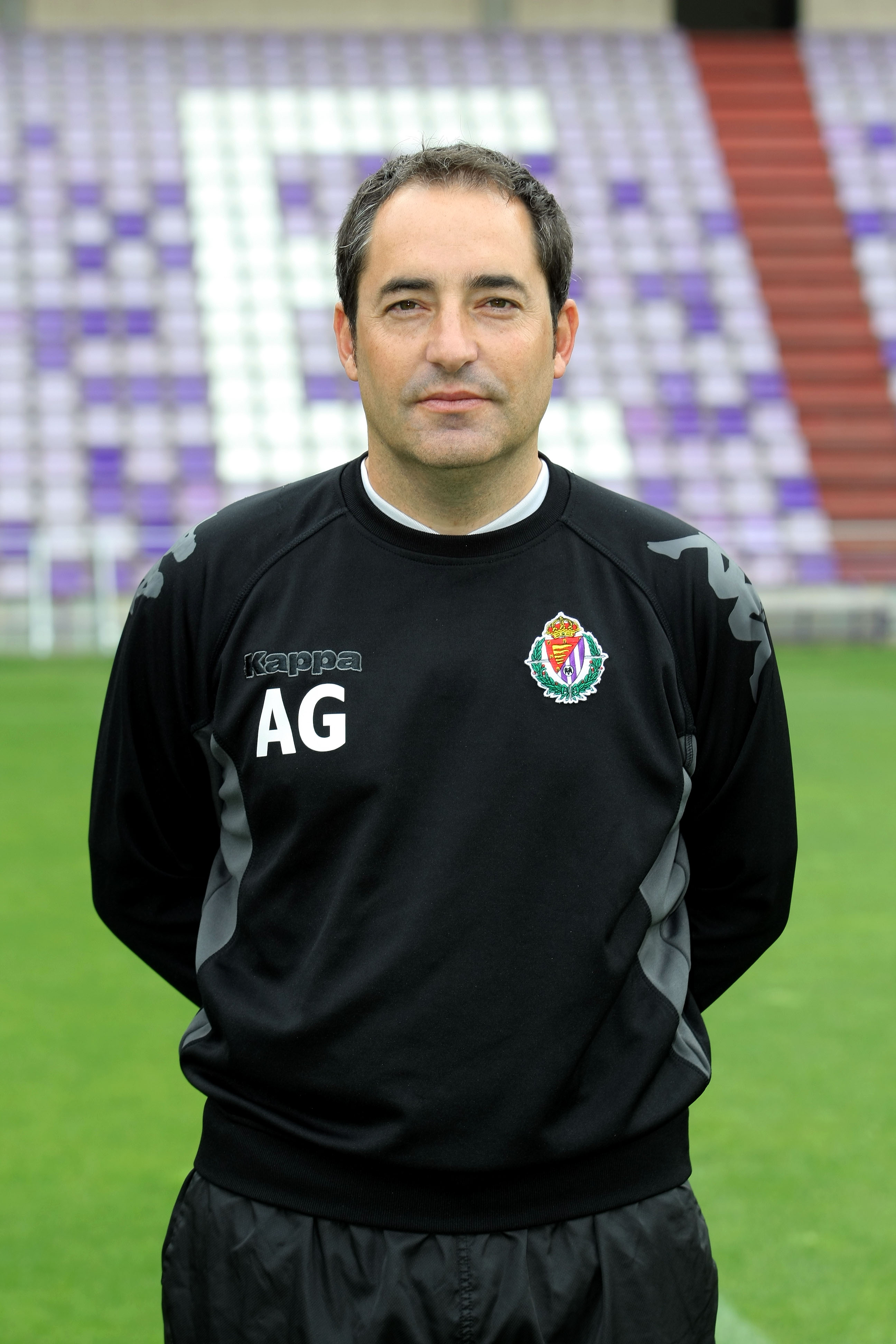 Antonio Gómez Pérez, Spanish football coach.